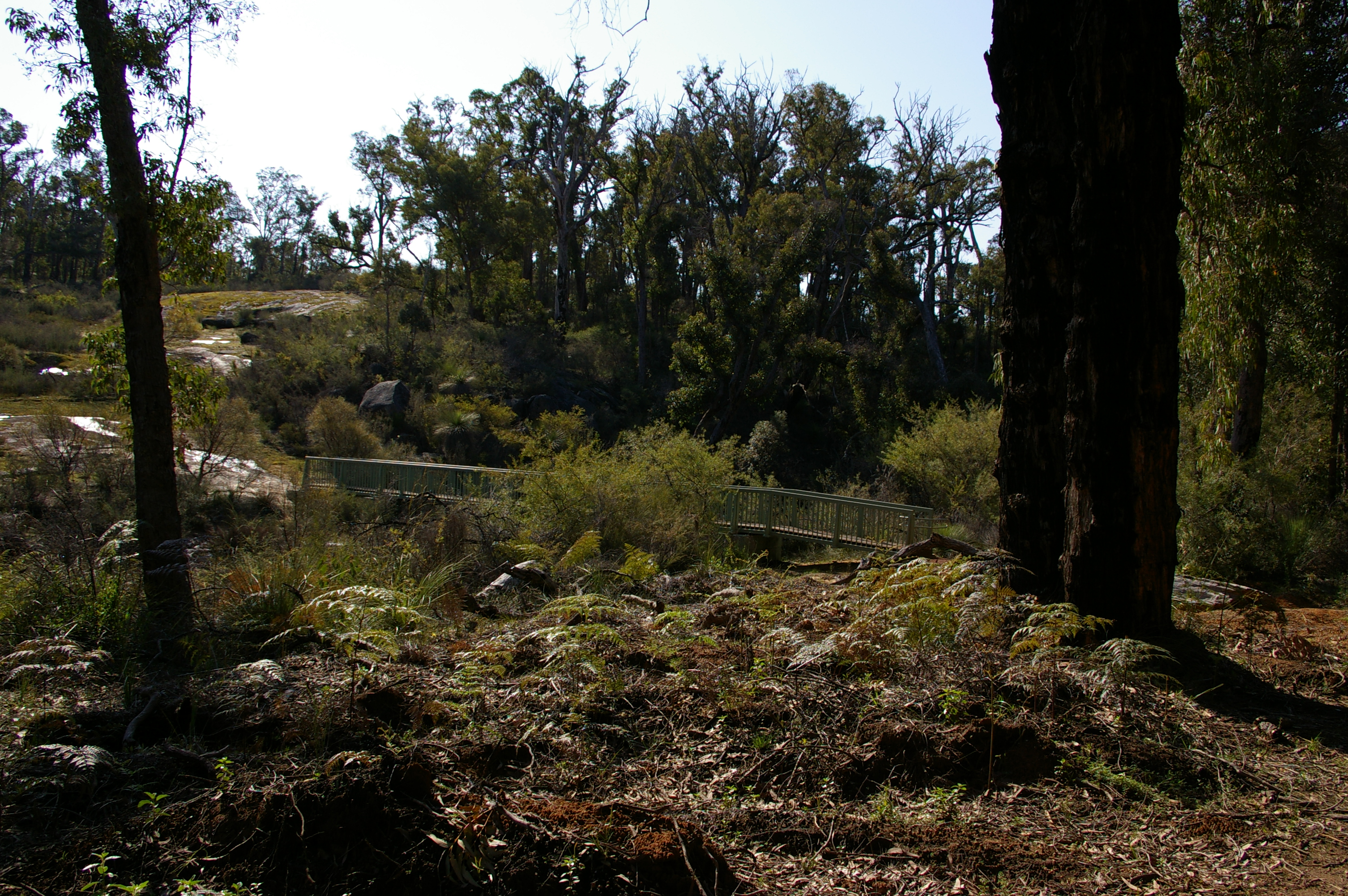 Taken in the Monadnocks Conservation reserve near the bibbulmun track where it crosses the upper reaches of the Canning river Bibbulmun track where it crosses the Canning River